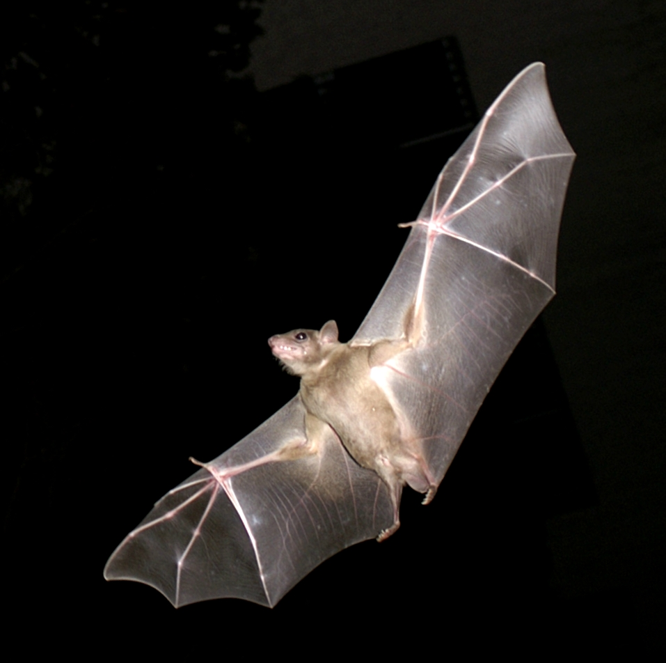 Common Fruit Bat (Rousettus aegyptiacus) flying in Israel